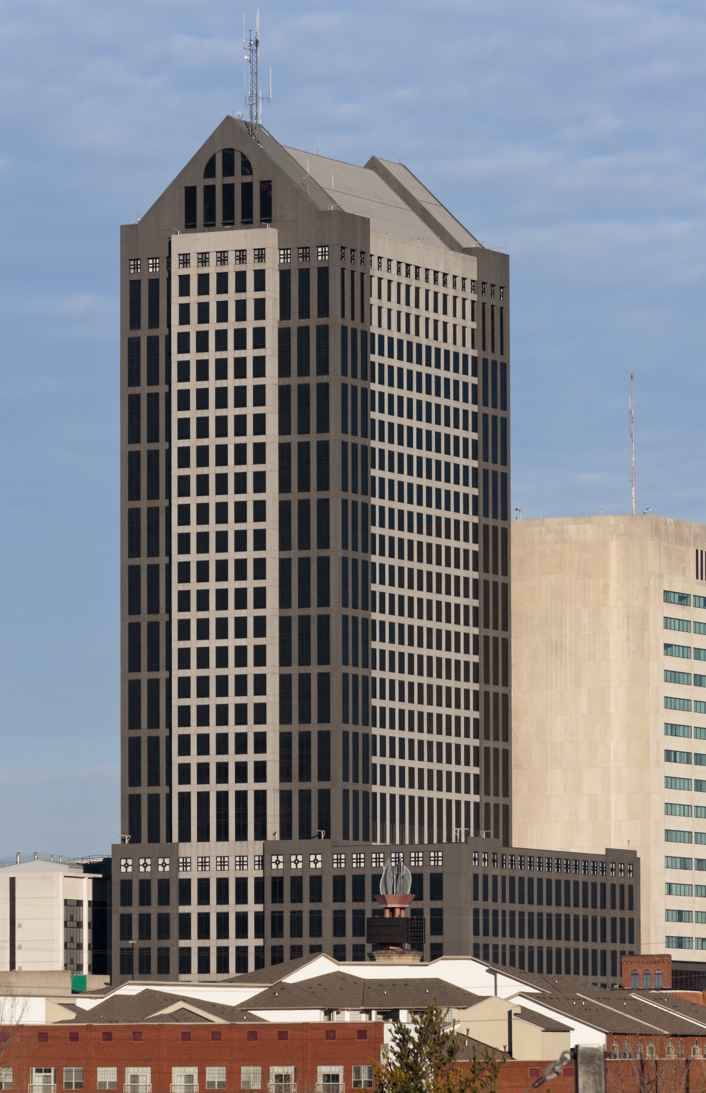 Franklin County Court House located in Downtown Columbus, Ohio viewed from the SW.